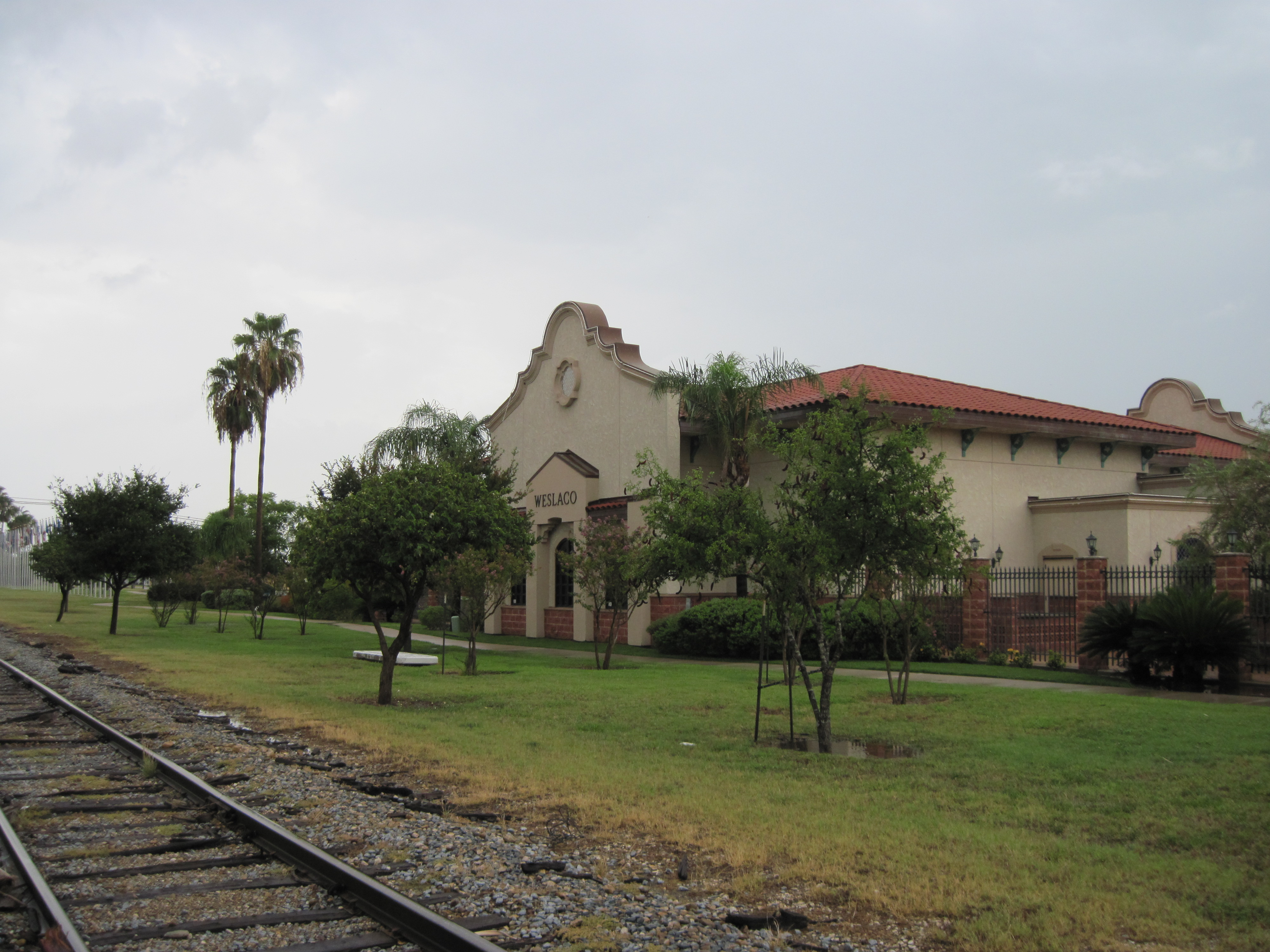 Weslaco Old Railroad Station.